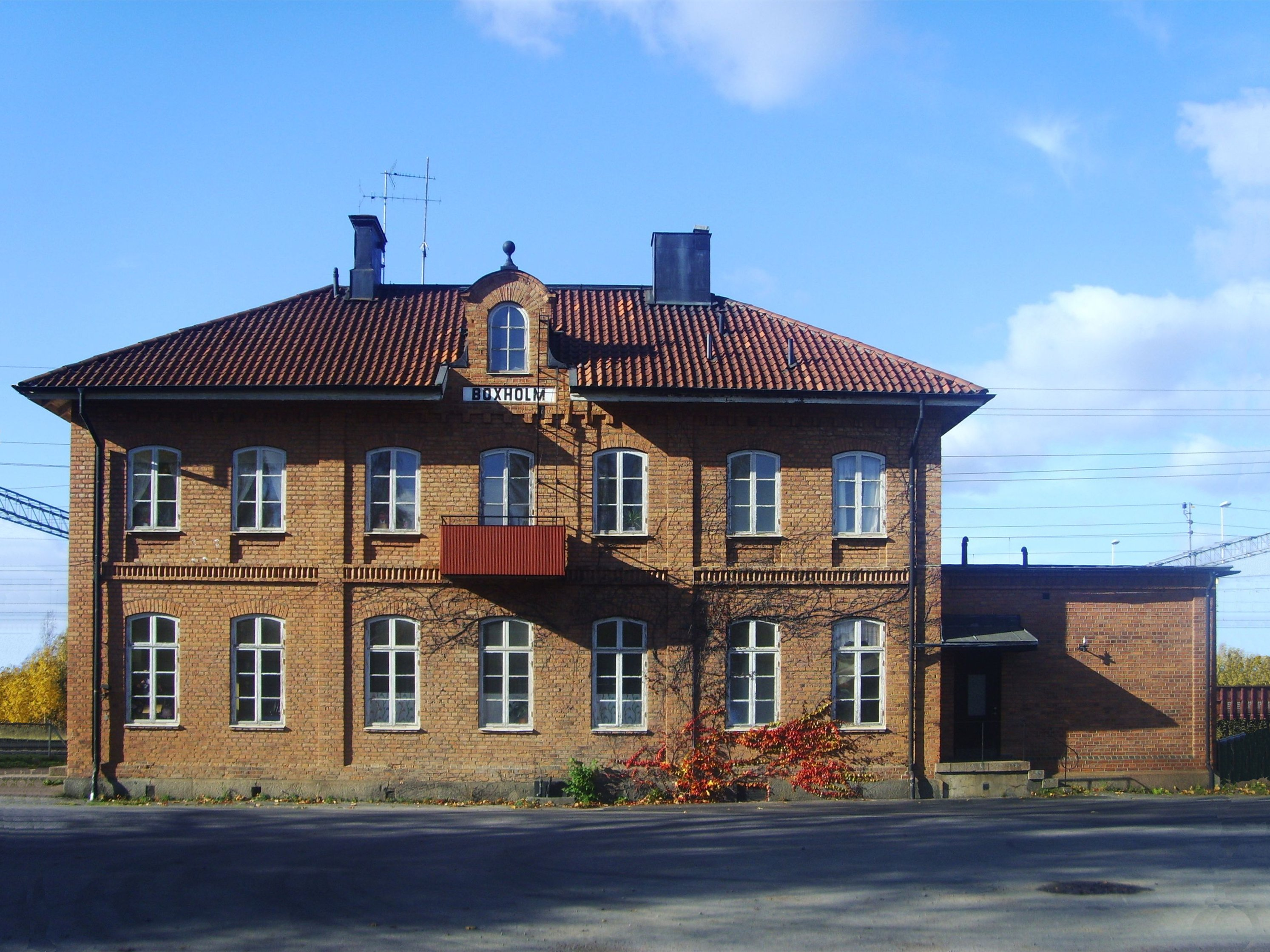 The train station area in Boxholm, Östergötland, Sweden.